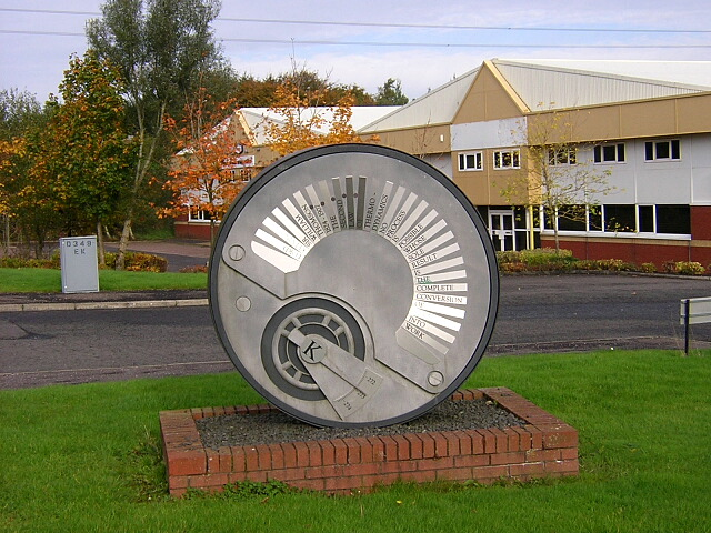 Second Law of Thermodynamics The text on this sculpture on Langlands Industrial Estate reads "Lord Kelvin Sir William Thomson The second law of thermo-dynamics No process is possible whose sole result is the complete conversion of heat into work".